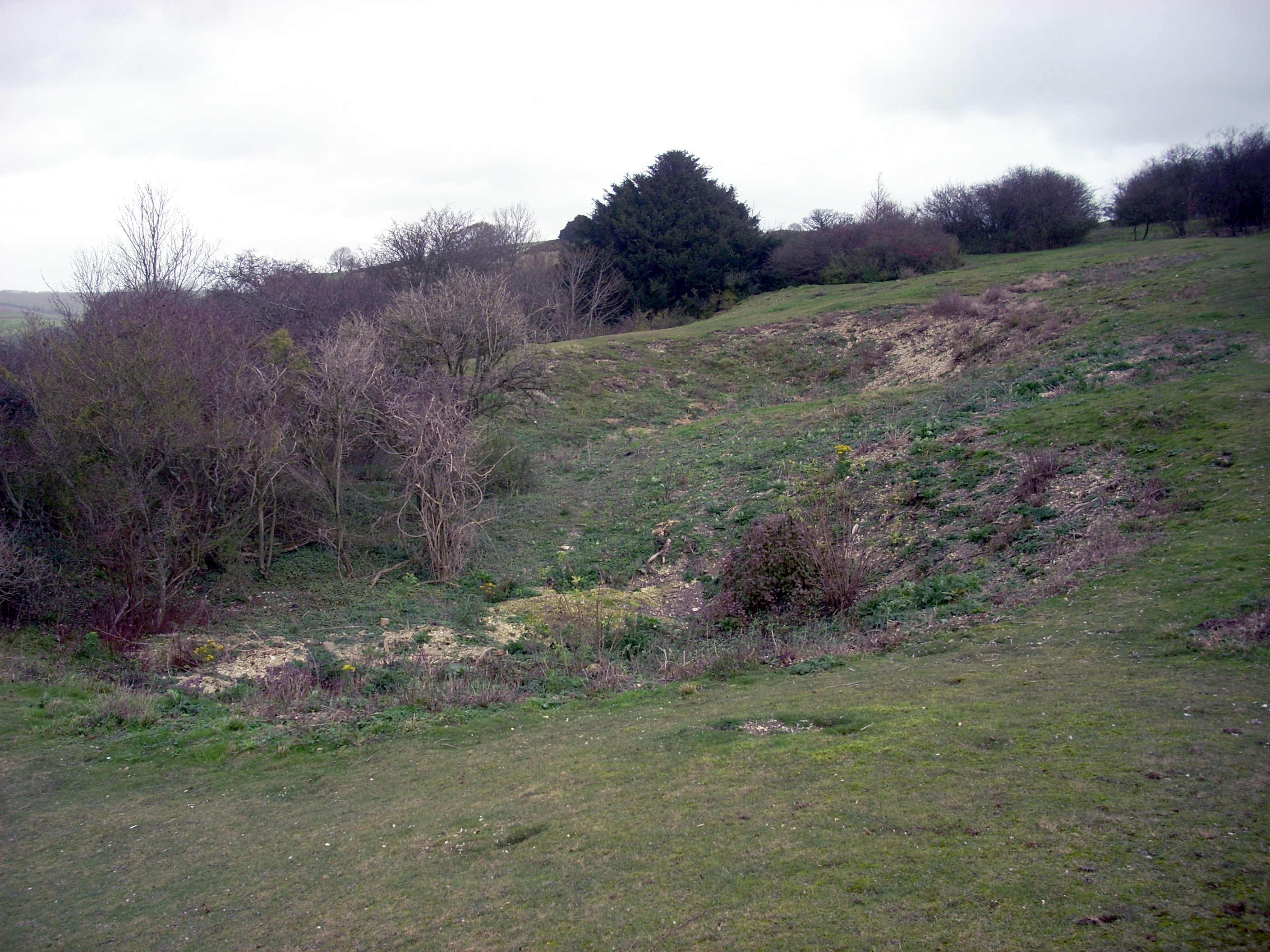 Neolithic flint mine inside Cissbury Ring, an Iron Age hillfort in West Sussex.